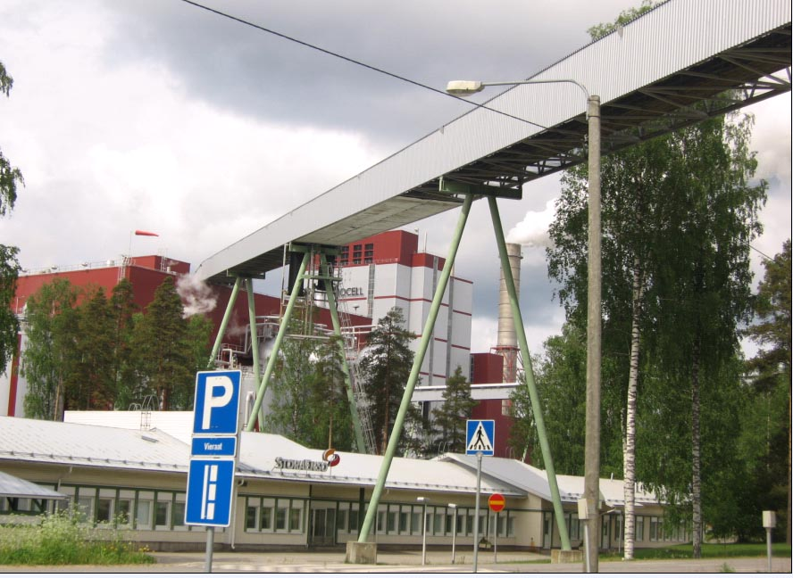 Enocell pulp mill Uimaharju, Joensuu